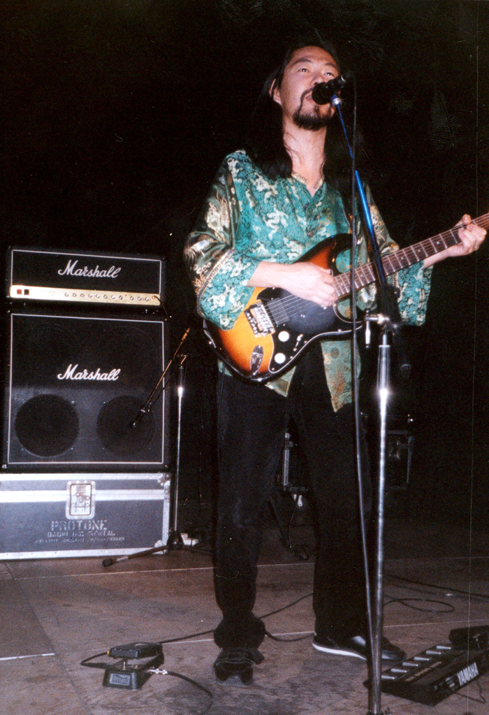 Albert Kuvezin (from the band Yat-Kha) Live at Tollhaus in Karlsruhe, Germany, June 14, 2001. The photo is made by myself at the live concert of Yat-Kha.